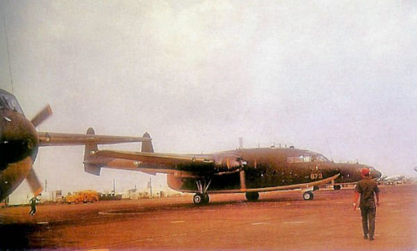 Fairchild C-119G Flying Boxcars of the 413th Transport Squadron, South Vietnamese Air Force (VNAF), at Tan Son Nhut Air Base.